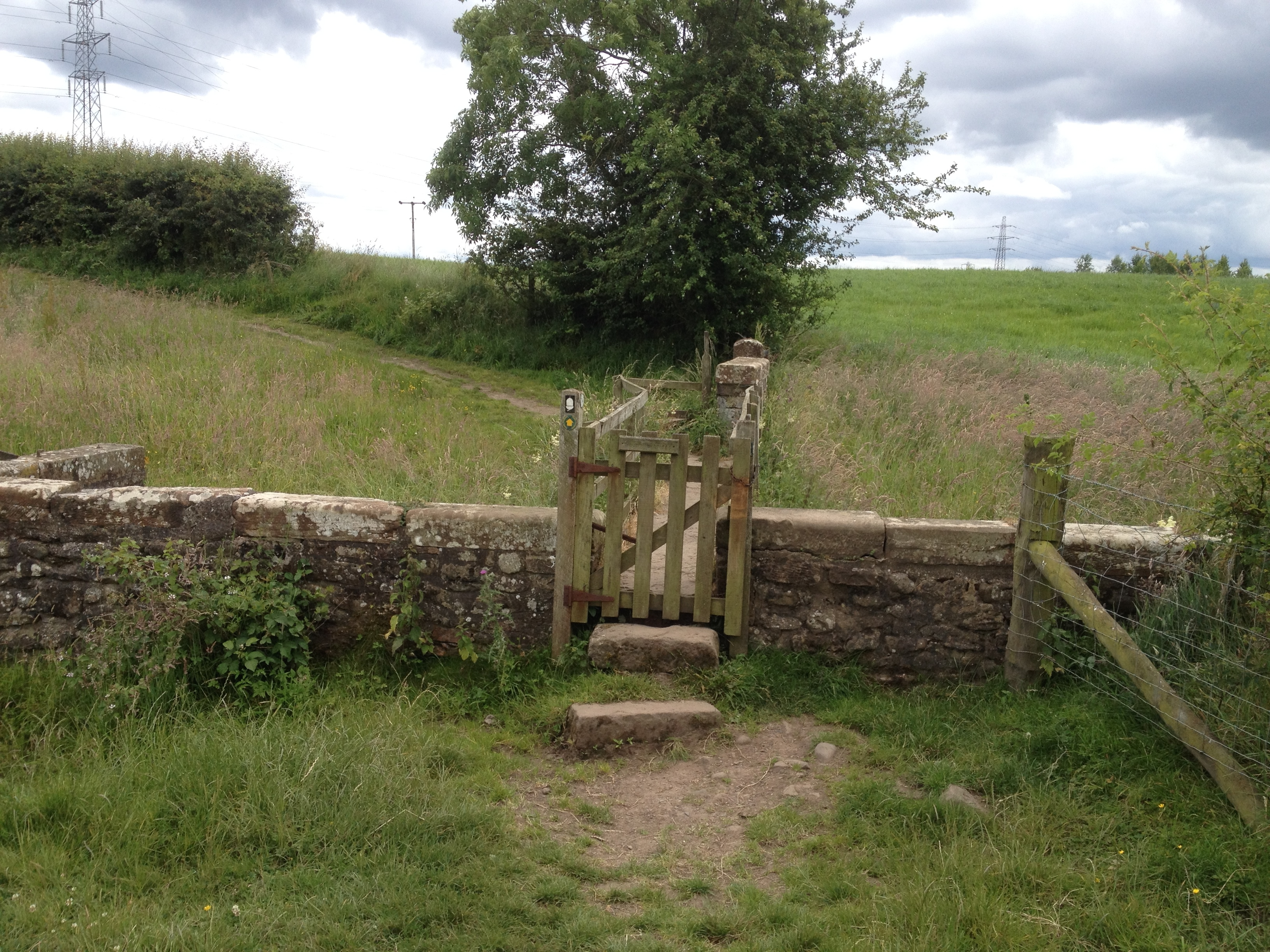 Sourmilk Bridge, between the villages of Burgh-by-Sands and Grinsdale, Cumbria (on Hadrian's Wall).